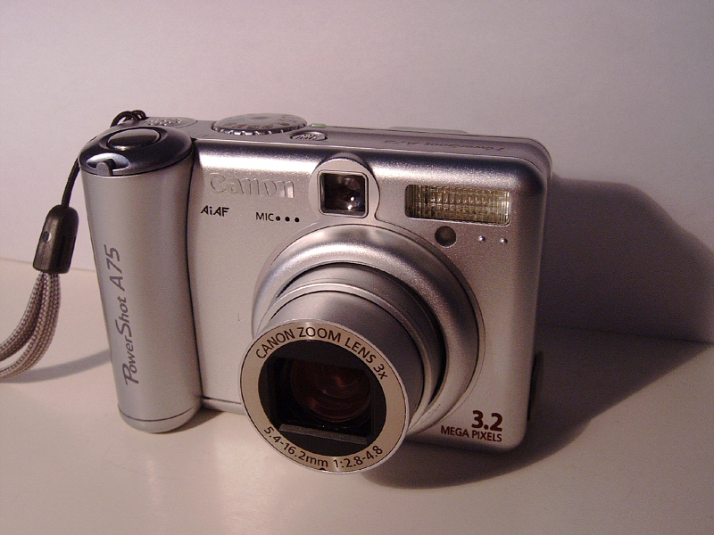 Canon PowerShot A75